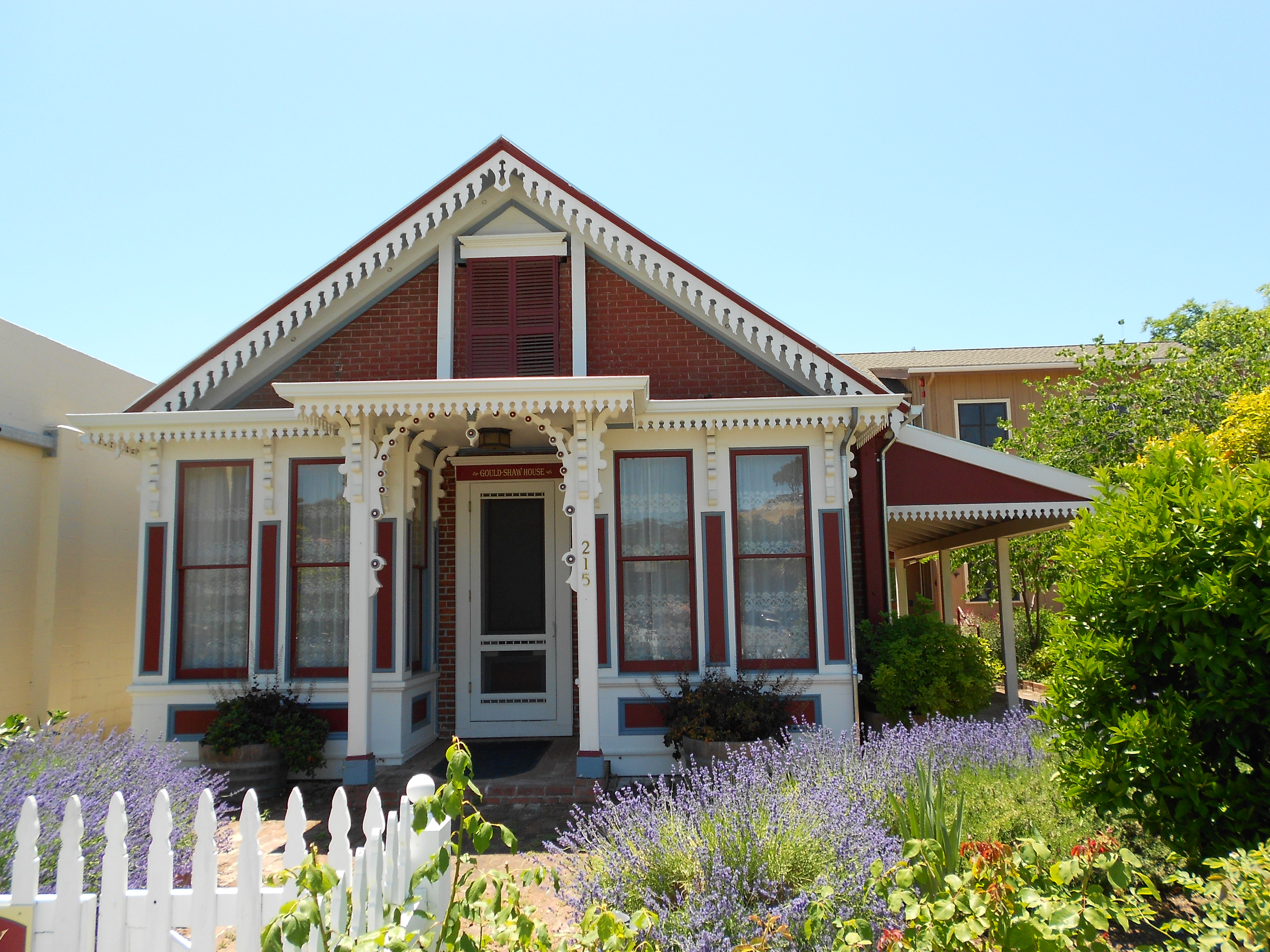 The Gould-Shaw Hous in Cloverdale, California